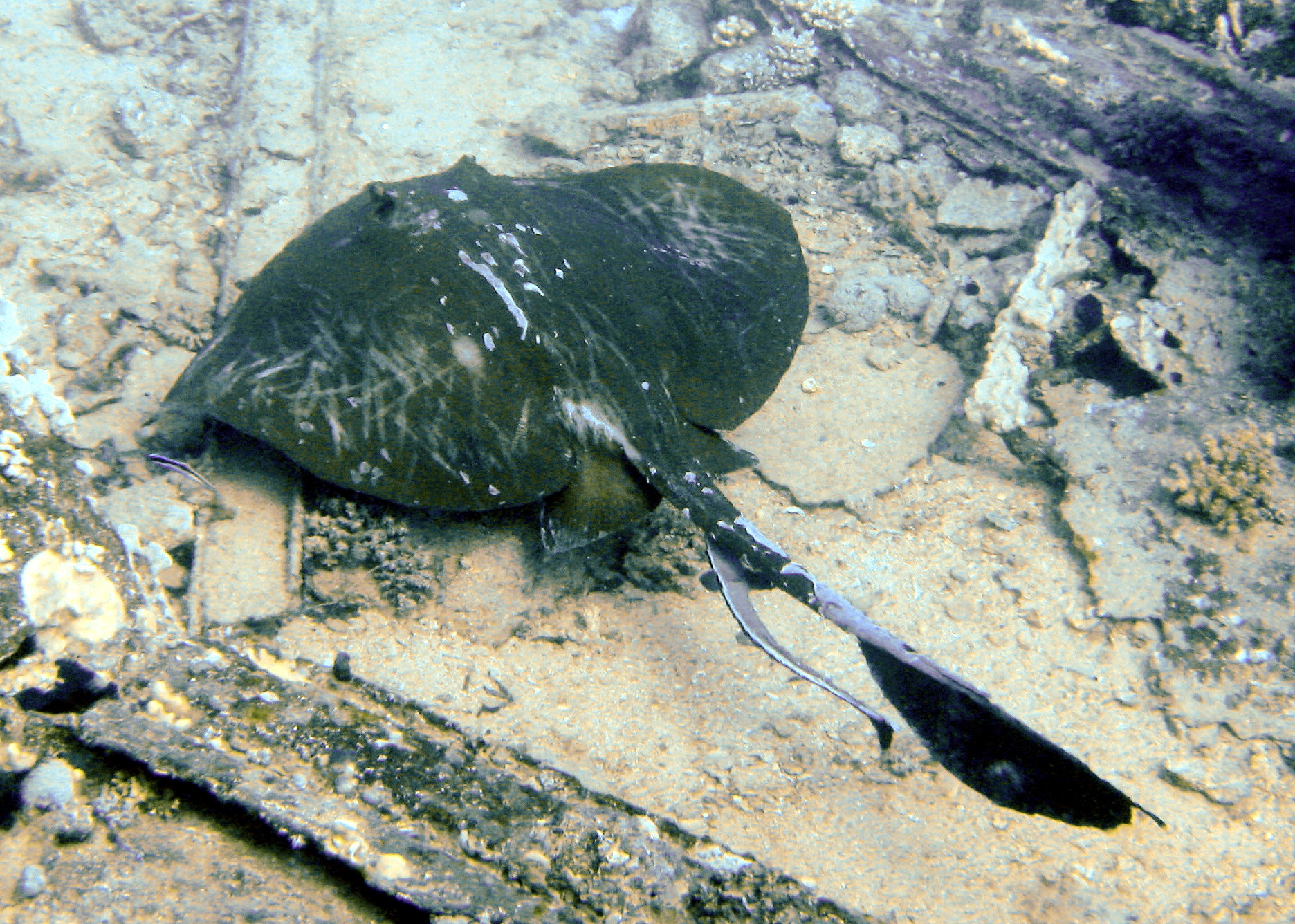 pastinachus sephen. Picture taken in Yolanda reef, in the Red sea.